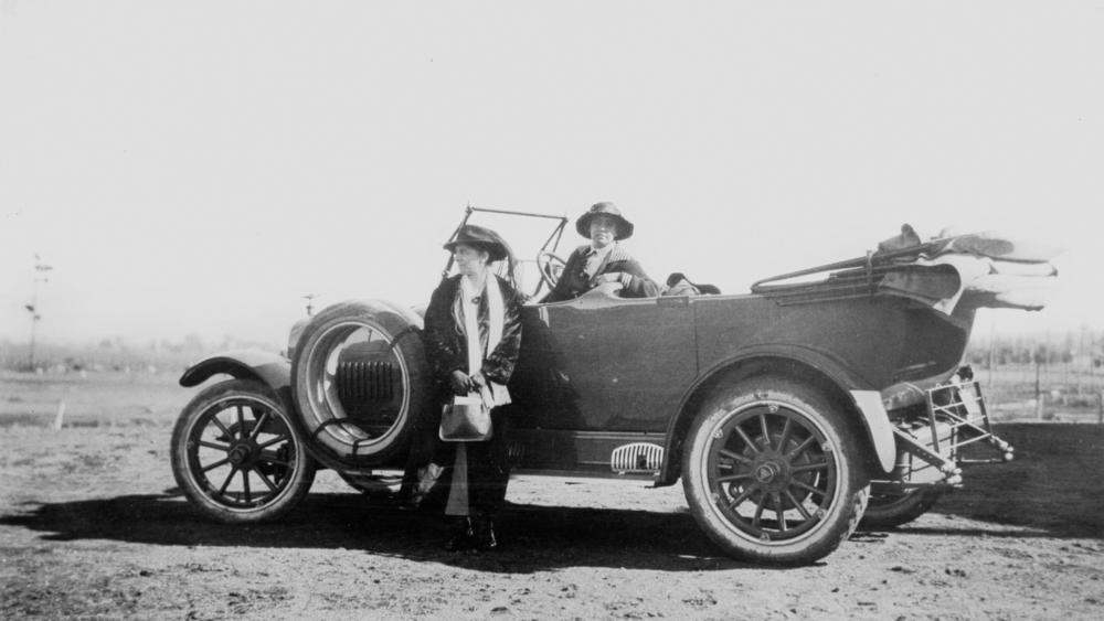 Jessie Campbell in the car at Kalbar, June 1920. Jessie Campbell is sitting in a touring car, with the hood down. The car's spare tyre is fixed to the running board and a folded luggage rack is at the rear.